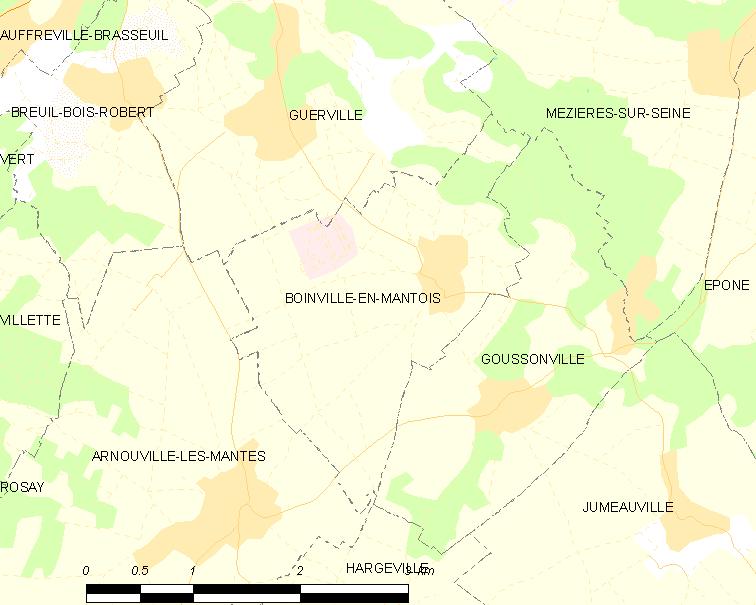 Map of French municipality Boinville-en-Mantois